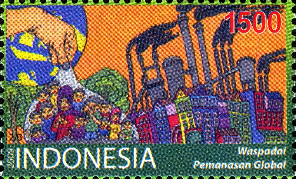 Stamps of Indonesia